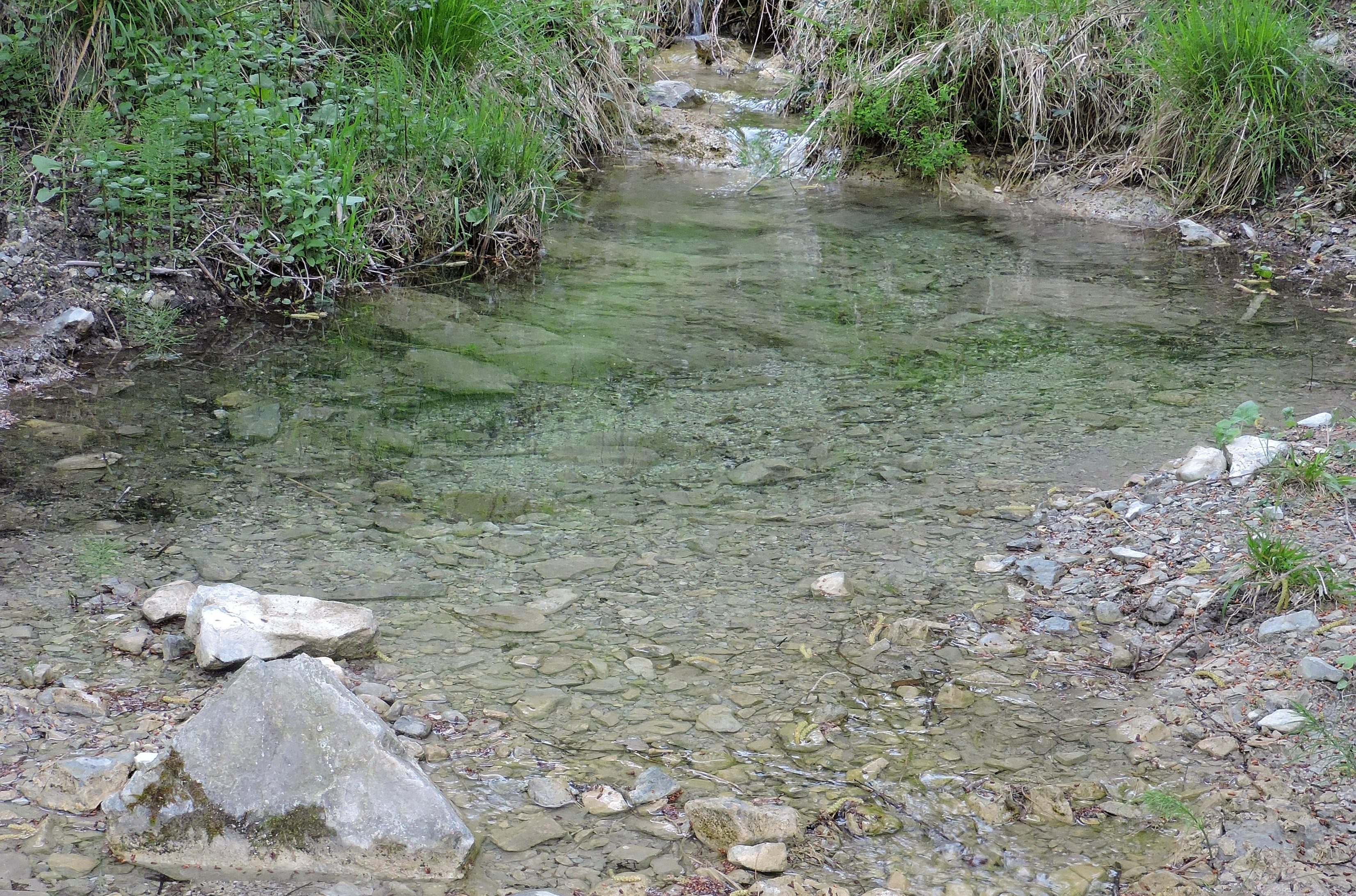 Rio San Luigi (Ventimiglia, IM, Italy) at 390 m of elevation